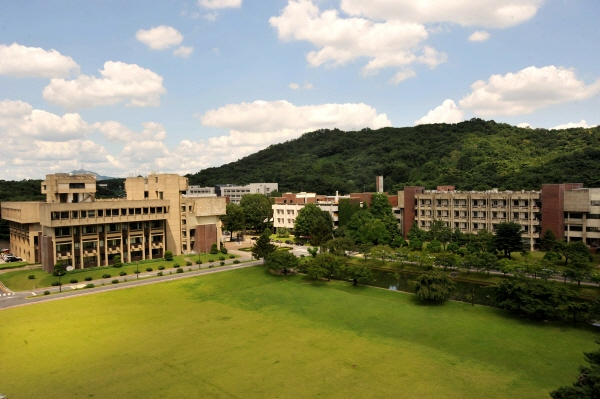 KIST Landscape